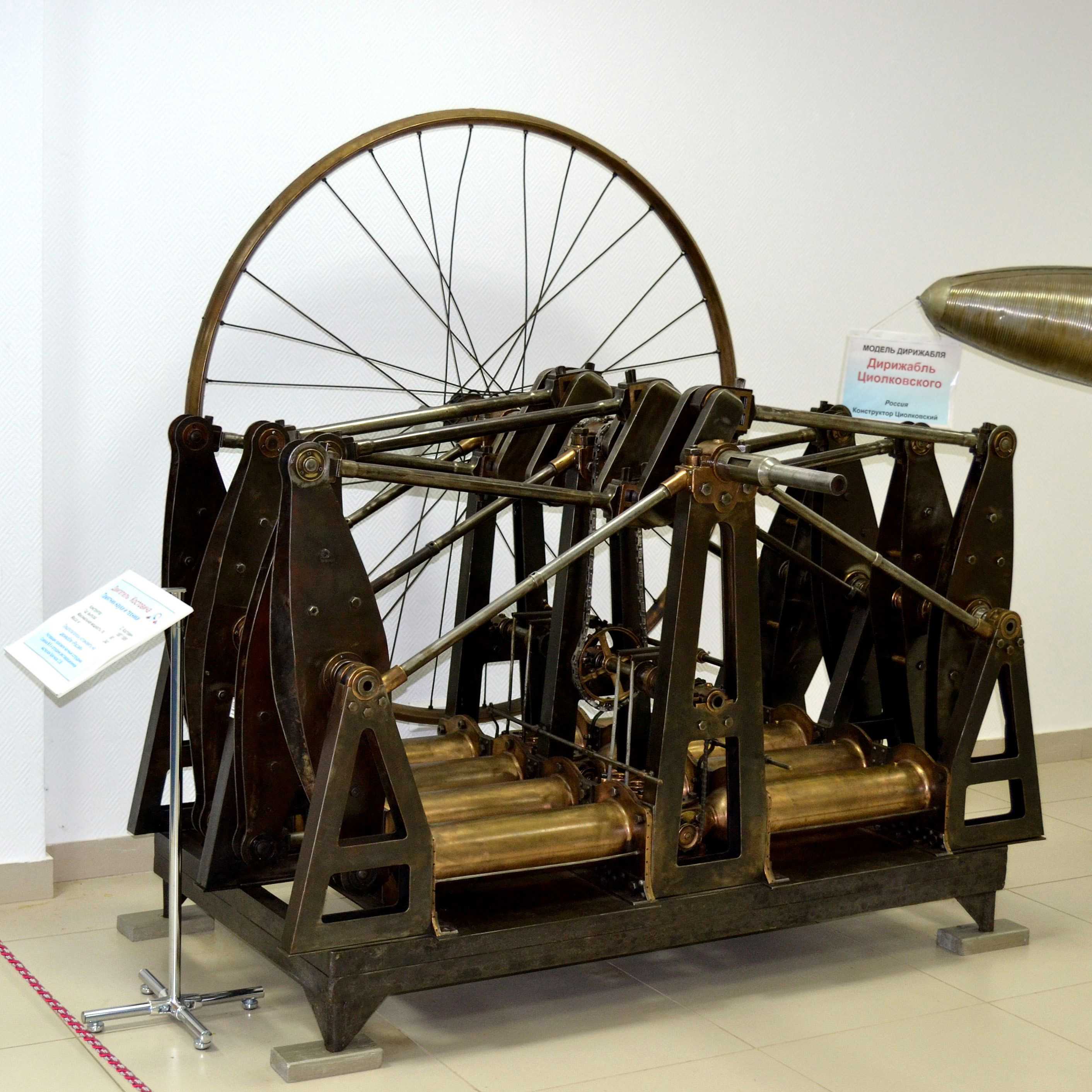 The gasoline engine constructed by Ognjeslav Kostović. Russia. 1883. The Central Air Force Museum in Monino, Russia. The engine was intended for the unfinished dirigible Rossiya (was built from 1882 to 1890).